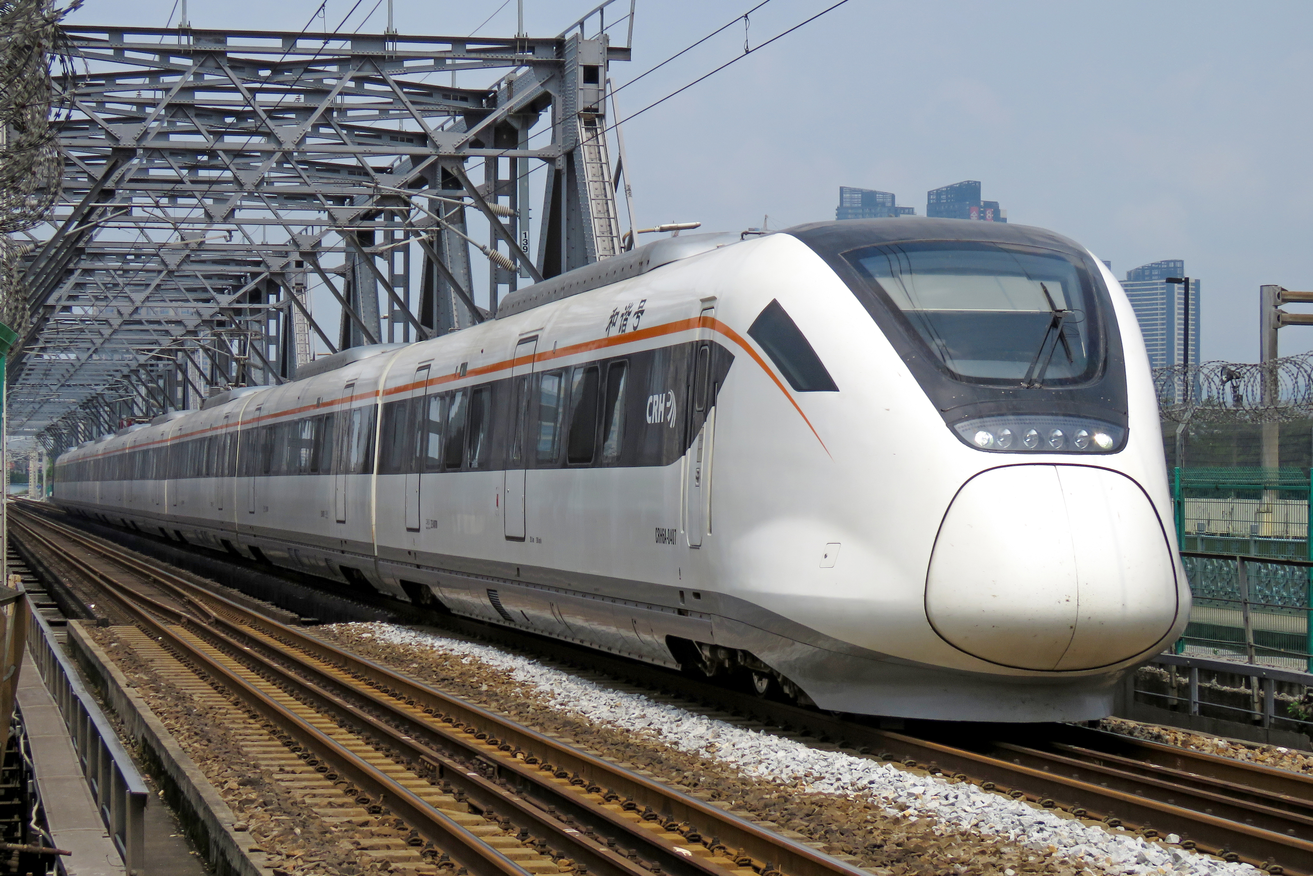 C6883 to Zhaoqing. The Guangzhou-Sanyanqiao section of Guangzhou-Maoming Railway was electrified in 2016.